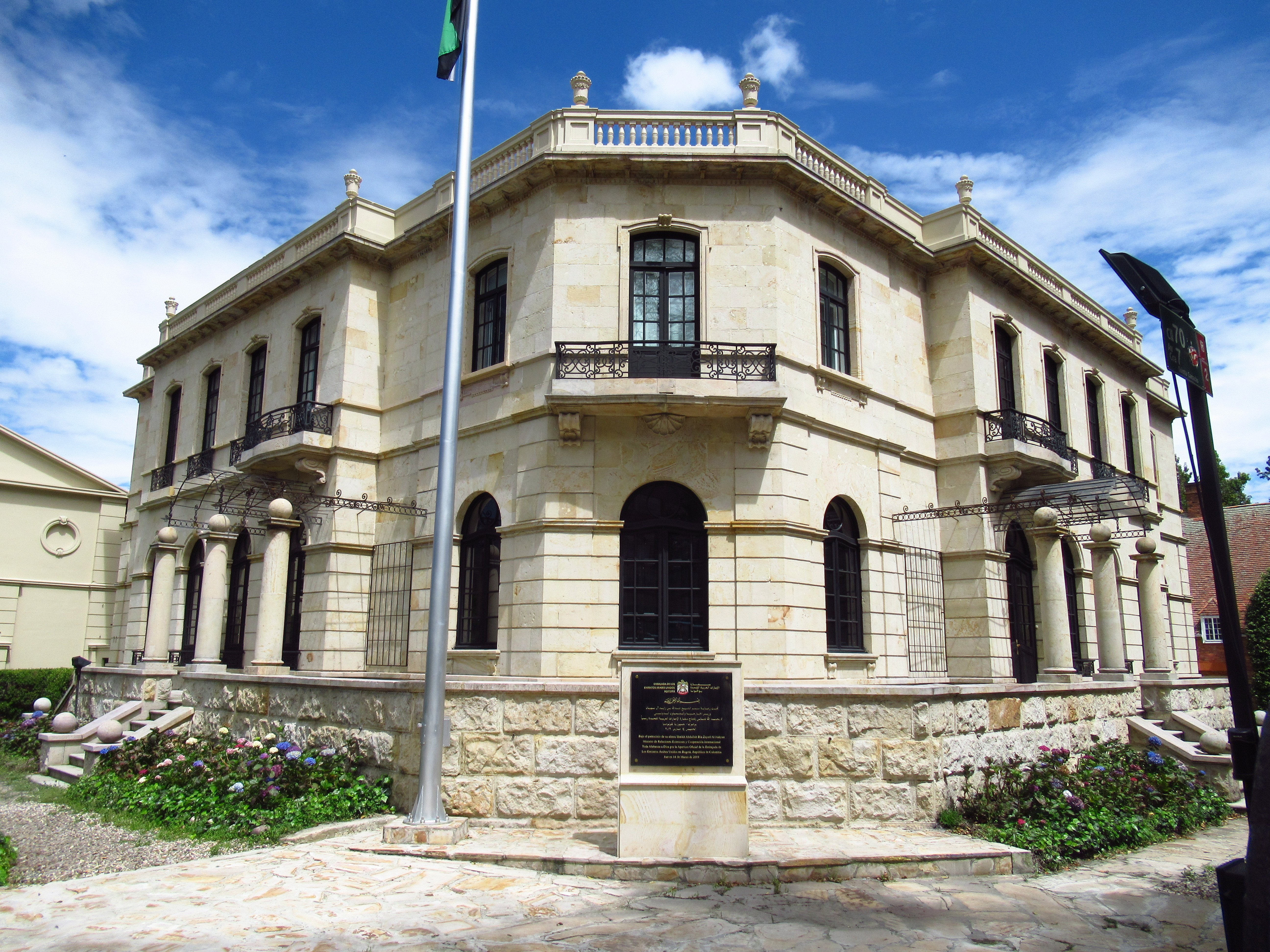 Bogotá